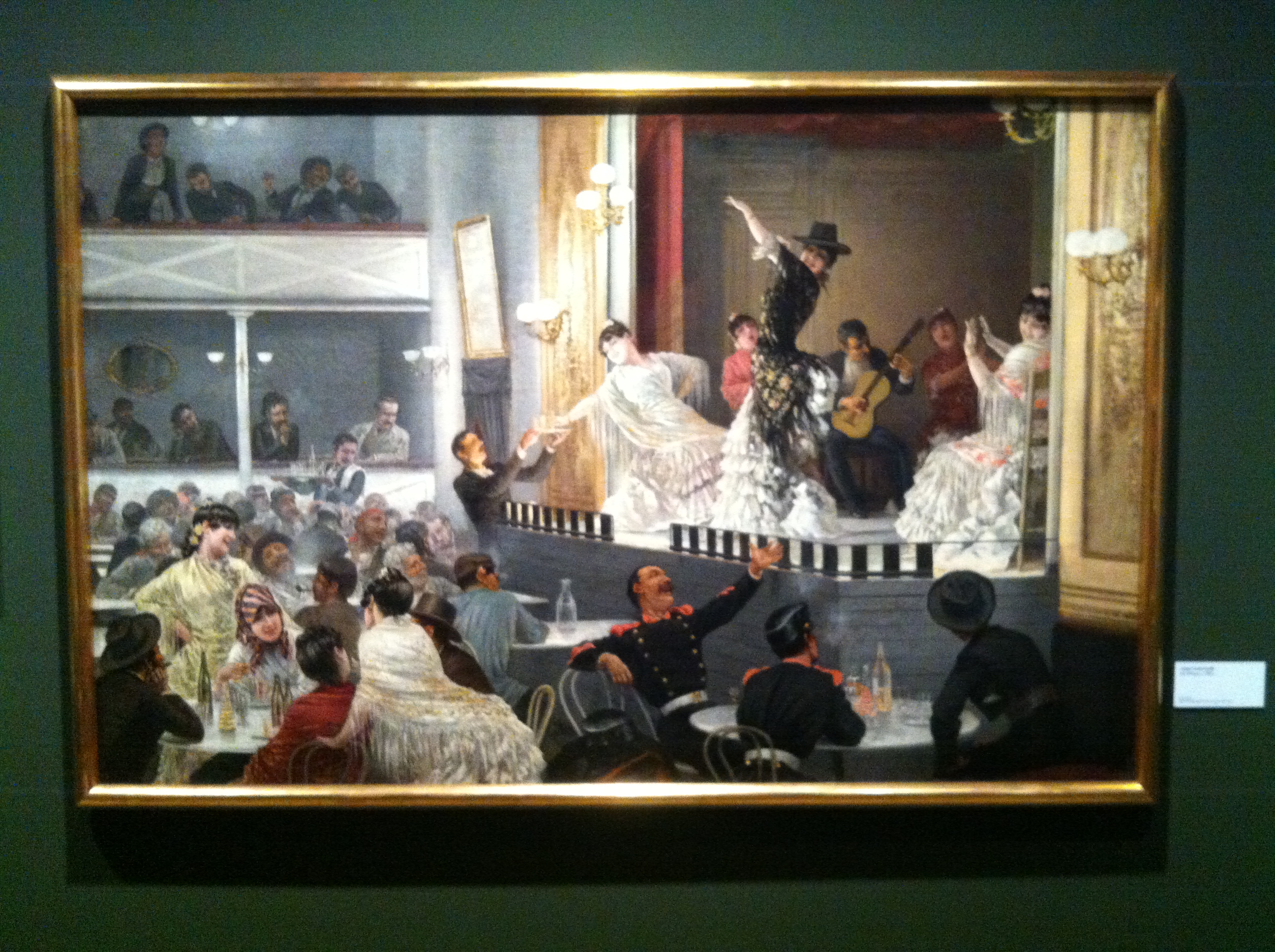 Pictures of an exhibit about The Paral·lel avenue in Barcelona that took place in CCCB cultural center between october 2012 and feb 2013. El Paral·lel emerges from the project to extend the city designed by Ildefons Cerdà. From its birth, a series of contradictory urban planning regulations facilitated the appearance of ephemeral buildings and the conversion of this street into a dense area of leisure and entertainment. The result was a leisure district for the masses, perfectly comparable to those existing in other major European urban agglomerations at that time, but that immediately became a genuine cultural expression of the social and political conflict that characterised the Barcelona of the early 20th century. El Paral·lel generated shows with perfectly differentiated contents and formats, made up by the audience and the artists. This exhibition will explain, therefore, why a new entertainment area emerged in the city, leading the weight of the theatrical axis to move from the Plaça Catalunya-Passeig de Gràcia area to the Nou de la Rambla-Paral·lel area.